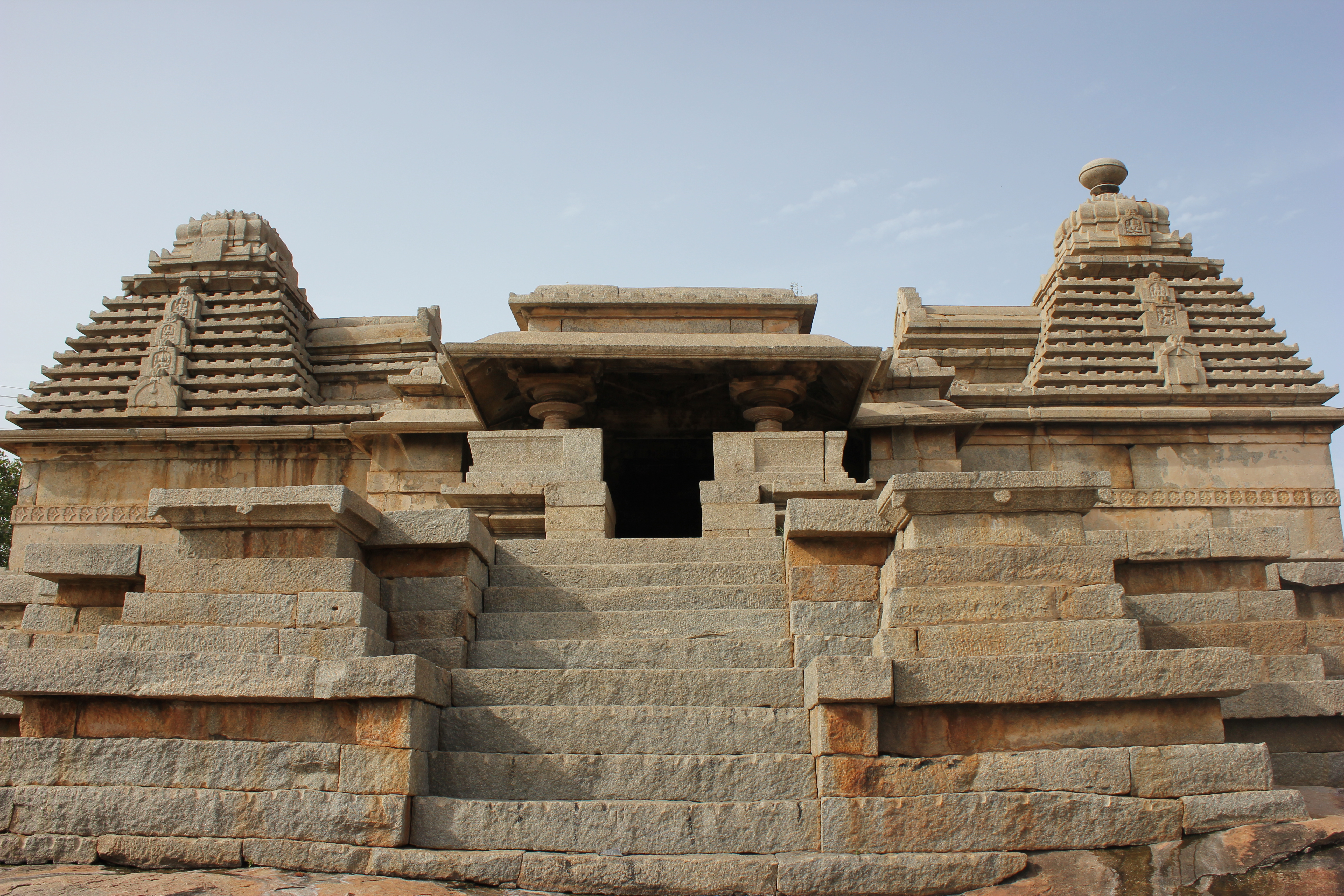 This photograph was taken by me on the Hemakuta hill temple complex at Hampi, a UNESCO world heritage site in the Bellary district of Karnataka state, India. The temple dates to the early 14th century rule of Kampili Raya (1326 AD), ruler of the tiny kingdom of Kampili (modern Bellary district) with his capital at Kummatadurga. The temple incorporates the Kadamba sikhara style of tower over shrine